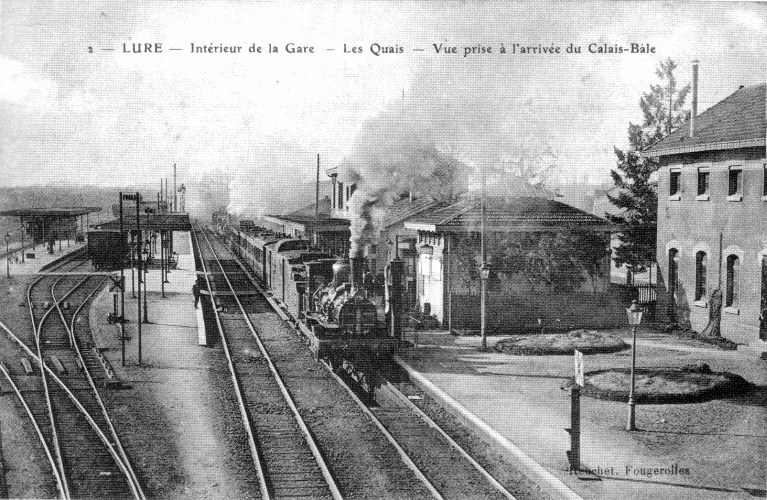 This is an old post card of the railway station of Lure, in France